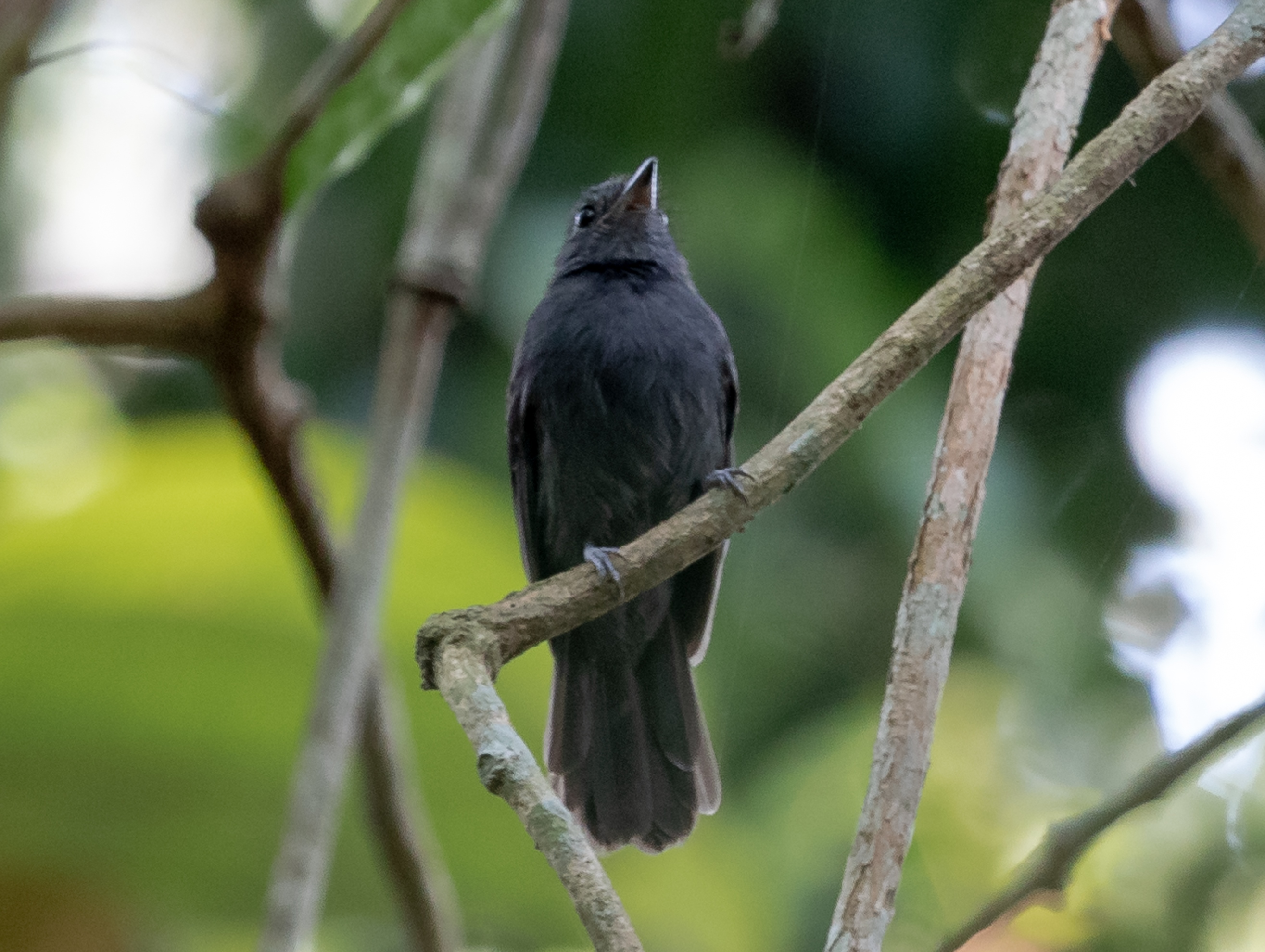 Cinereous antshrike at Carajás National Forest - PA - Brasil